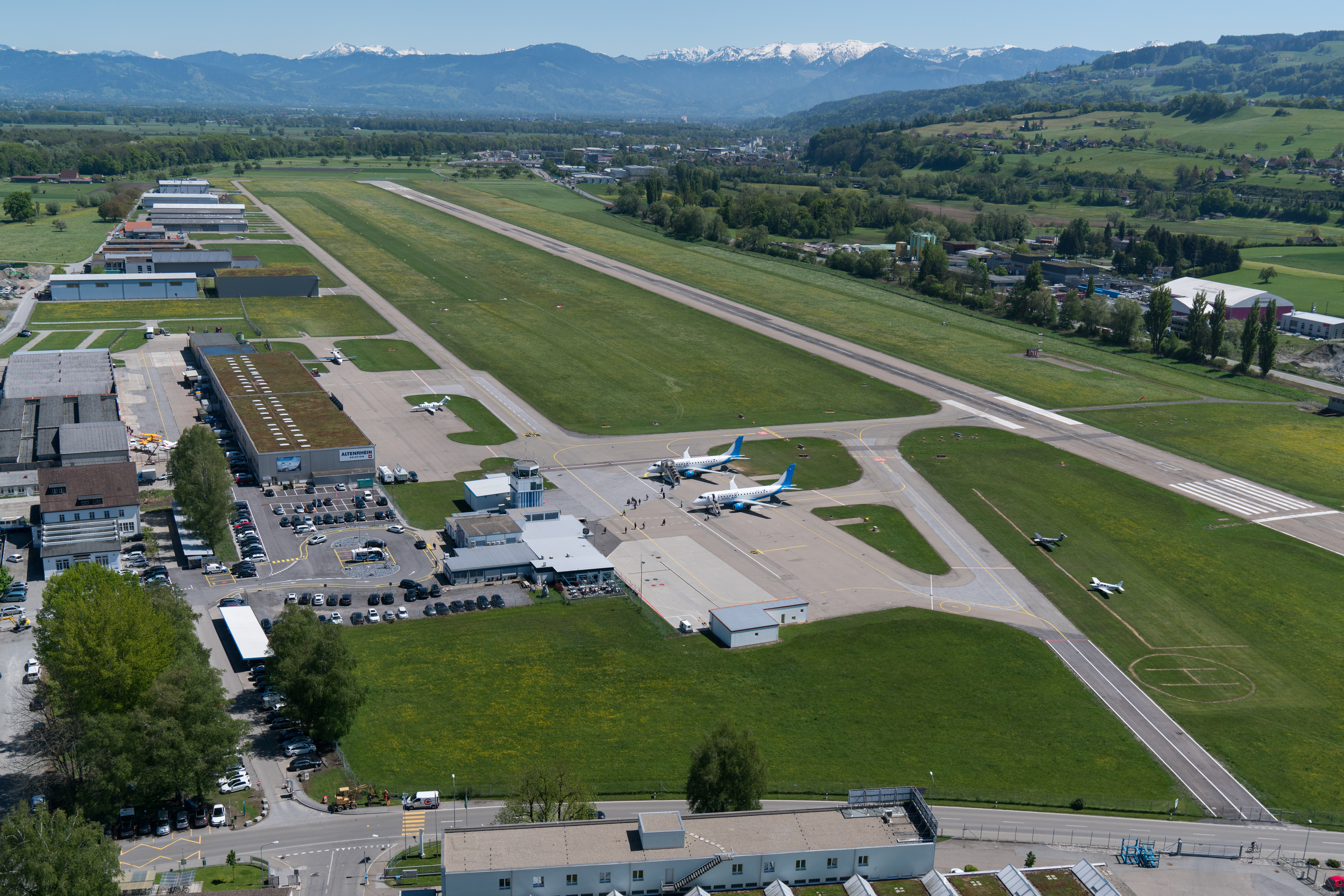 Airport St.Gallen-Altenrhein LSZR/ACH